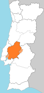 Region of Ribatejo (Ponte de Sor, according to the interpretation either in Ribatejo or Alentejo, and Vila Franca de Xira in the Metro Lisbon, in lighter colour).